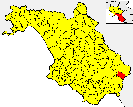 Locator map of the municipality of Casalbuono (red) within the Province of Salerno